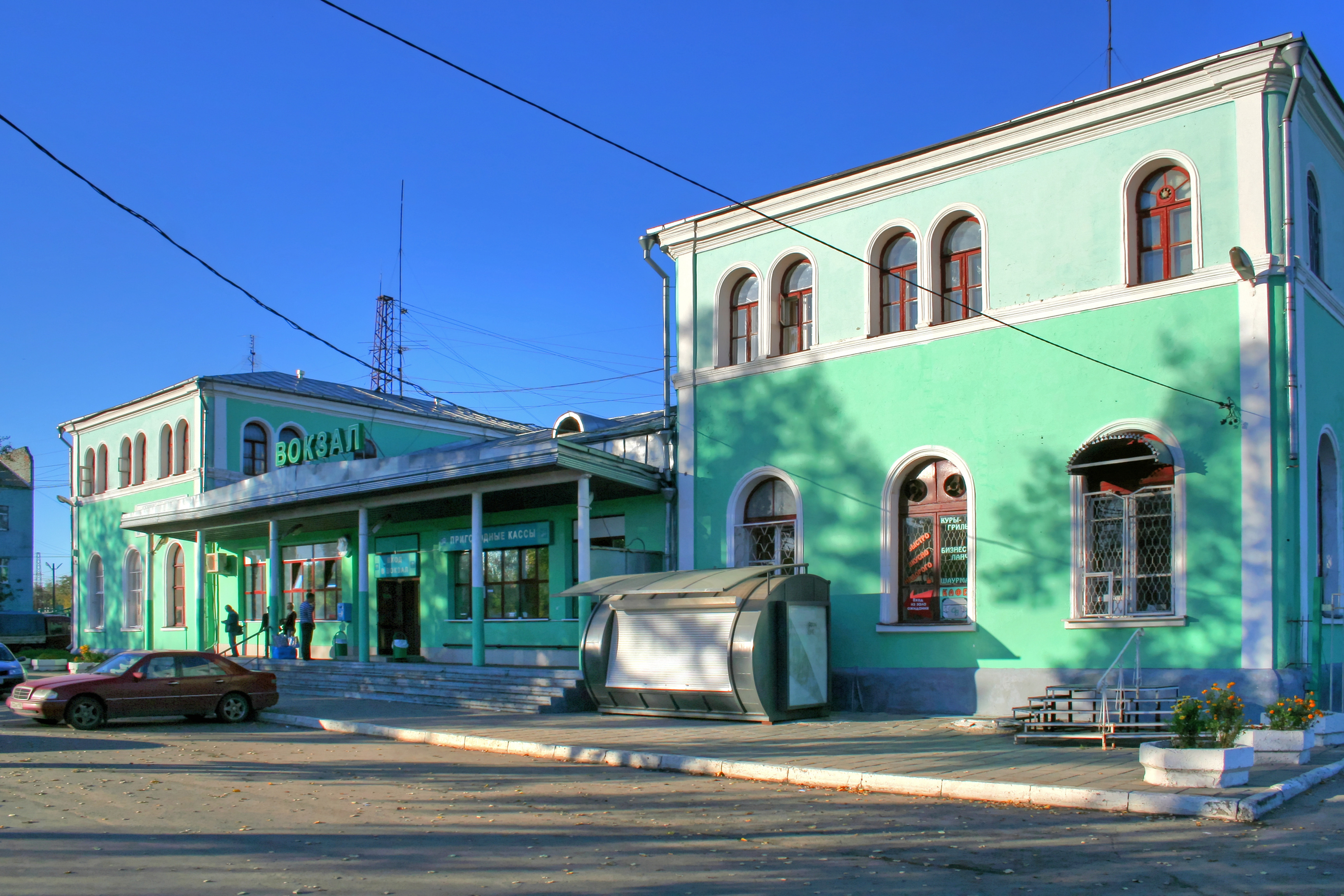 Train station Golutvin, Moscow Oblast